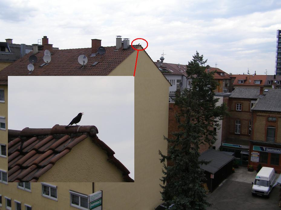 Singing Blackbird (Turdus merula) in a urban region